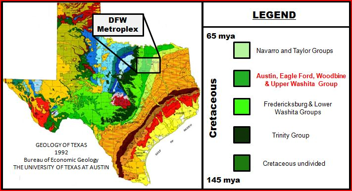 Cretaceous formations of Texas